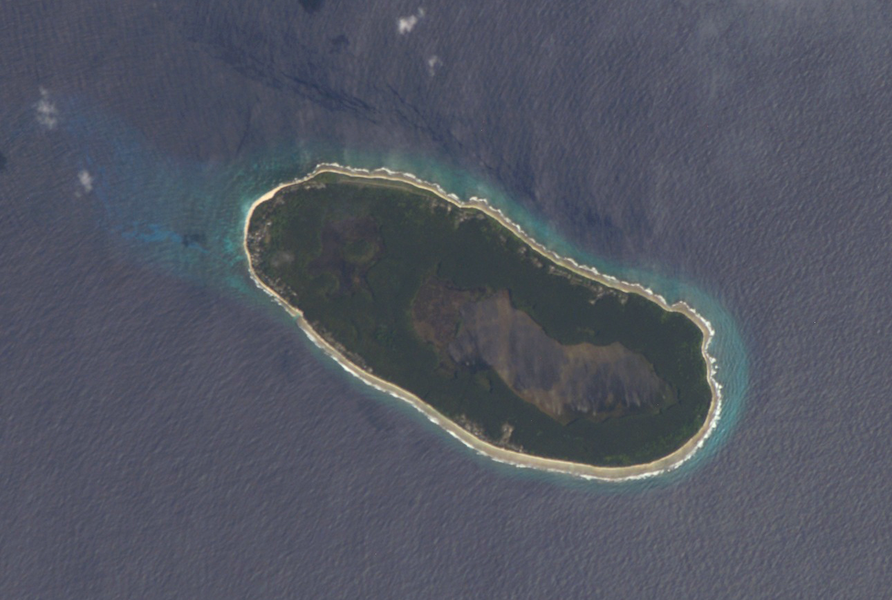 NASA astronaut image of Teraina (Washington Island), Line Islands, Kiribati